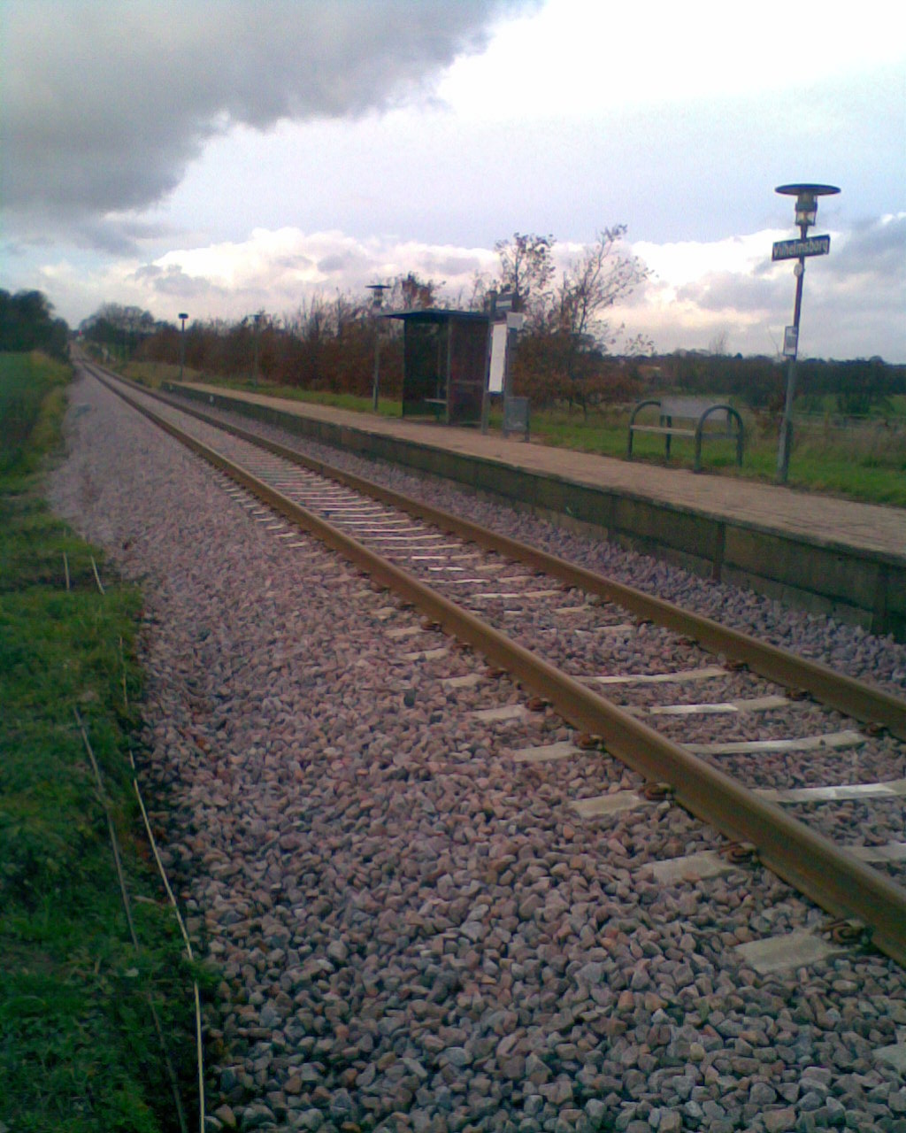 Vilhelmsborg Station, Denmark